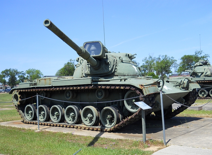 Patton M60 Medium Tank on display at Mississippi Armed Forces Museum, Camp Shelby, Forrest County, Mississippi, USA